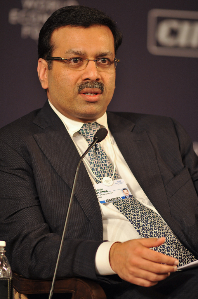 Sanjiv Goenka in the Plenary Impatient India. Participants captured during the World Economic Forum's India Economic Summit 2009 held in New Delhi, 8-10 November 2009.